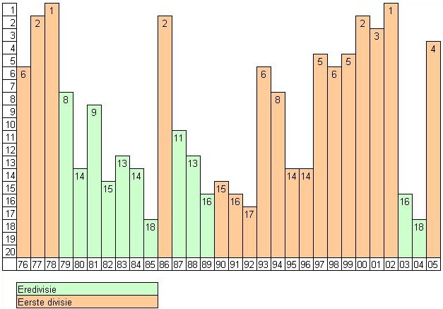 Dutch league positions of Zwolle, last 30 seasons